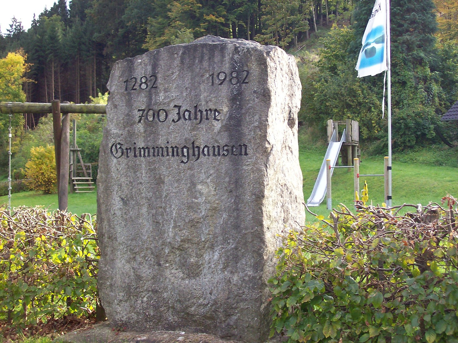 700 Jahre Grimminghausen (Stein)